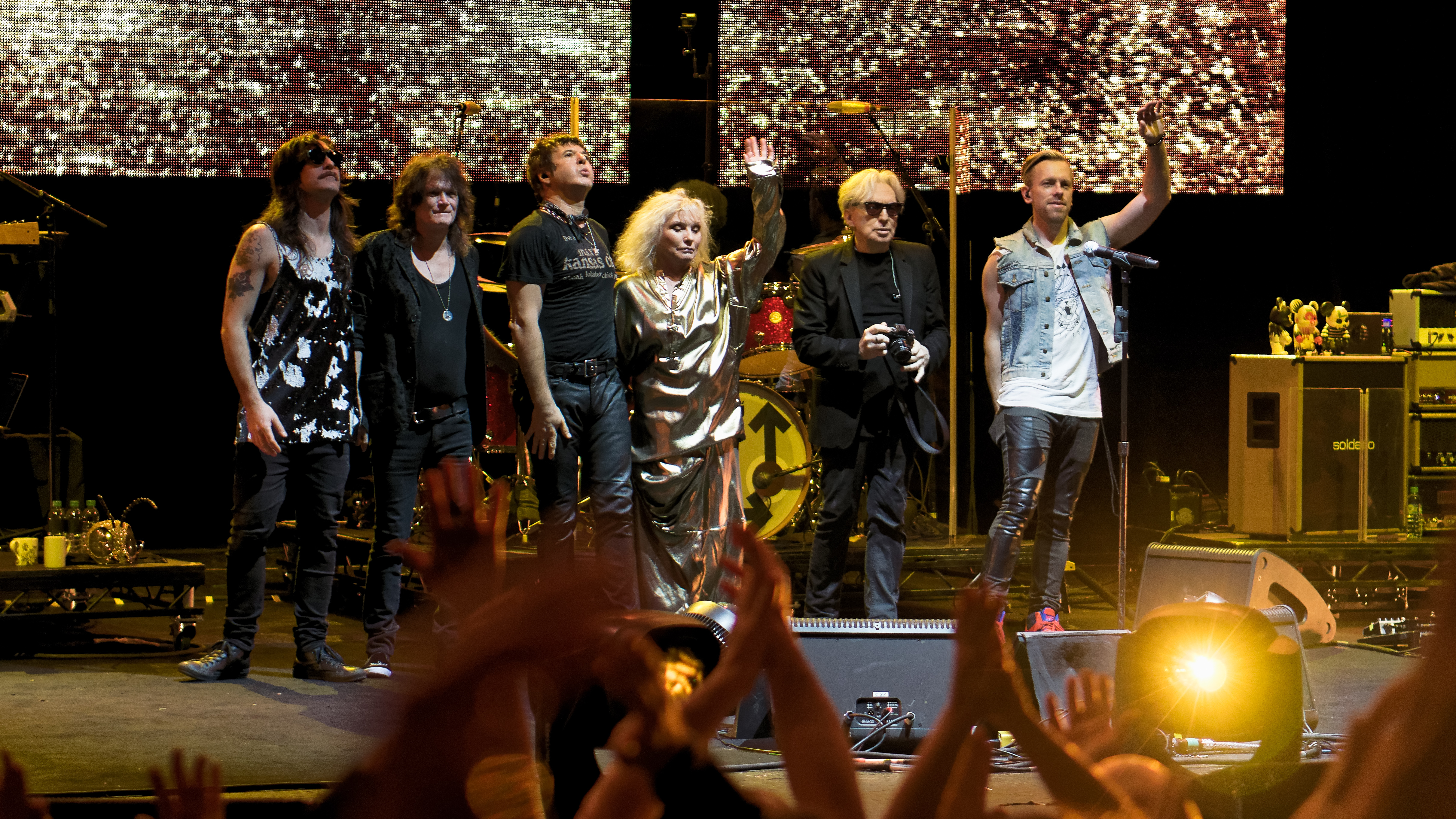 BlondieBrixton171117-43